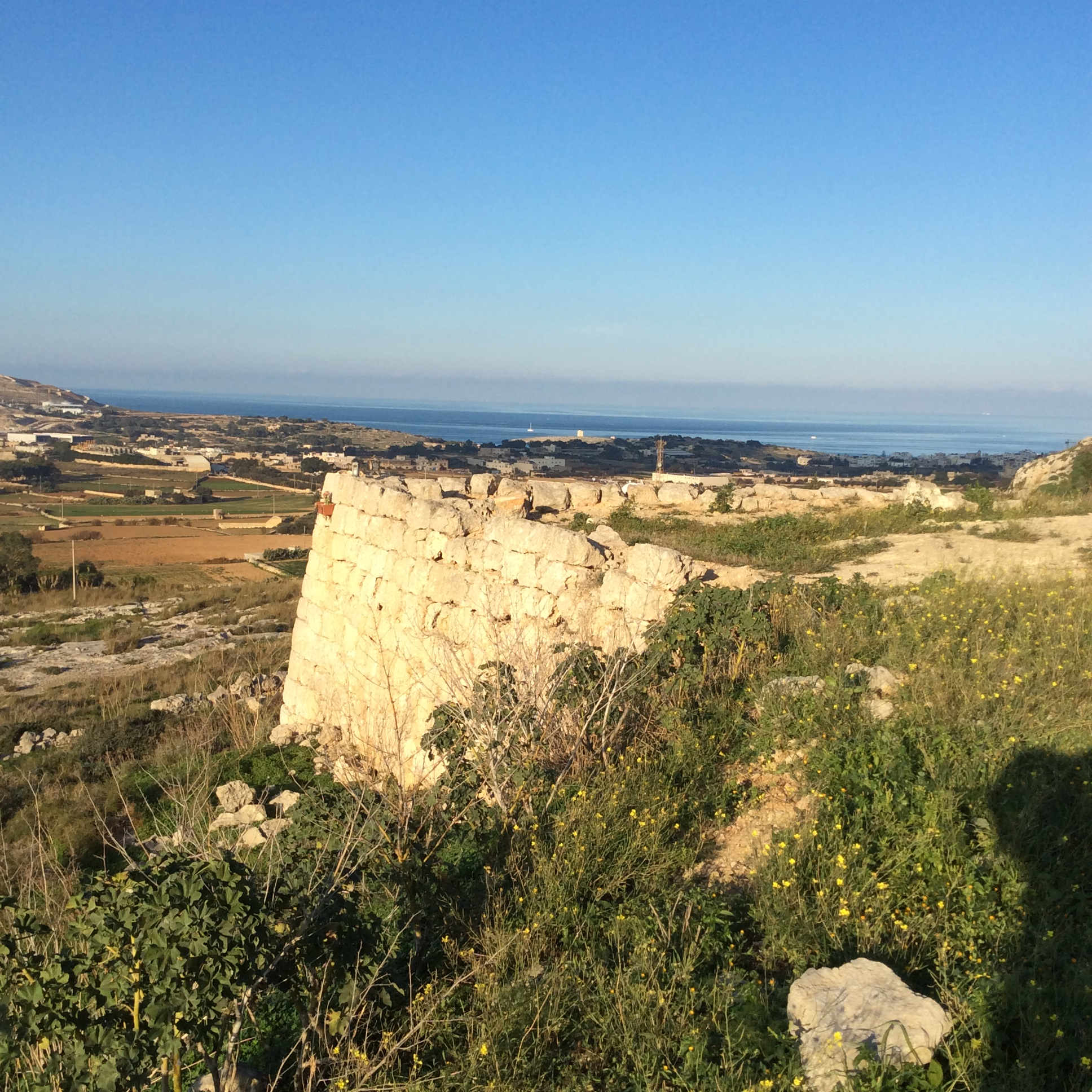 Part of the Naxxar Entrenchment v-shaped